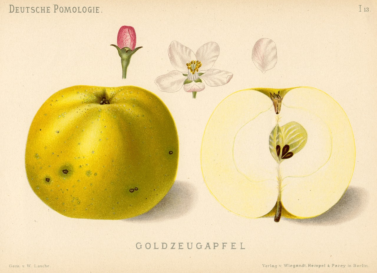 Illustration 13 from Deutsche Pomologie - Aepfel Apple cultivar shown: Goldzeugapfel